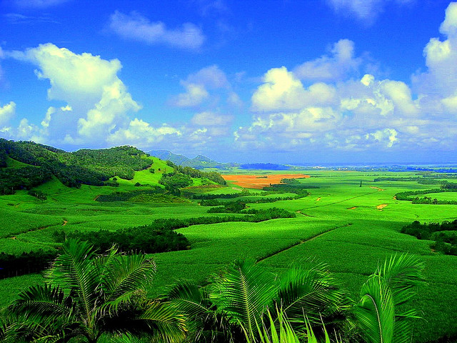 Sugarcane plantation in Mauritius